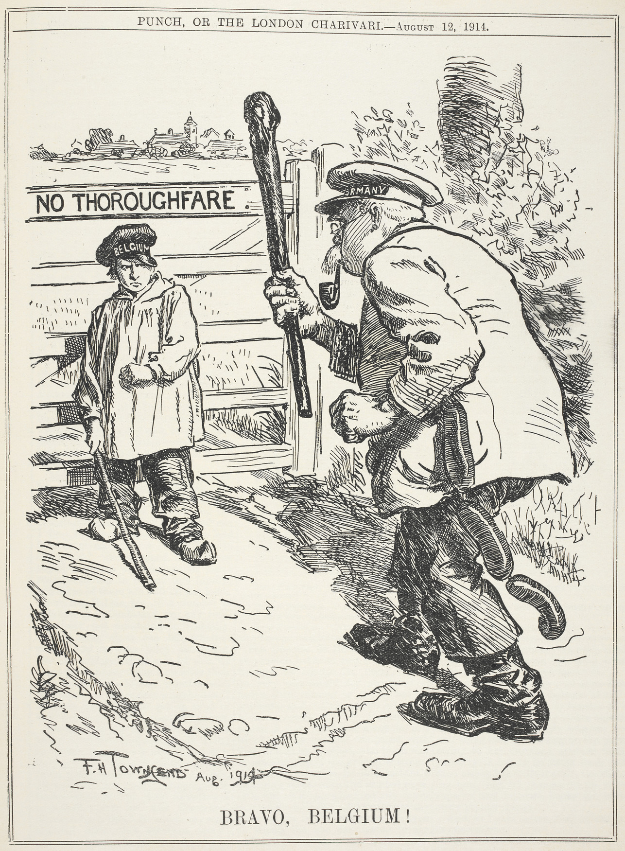 'Bravo, Belgium !' Political cartoon showing a Belgian farmer standing up to the German aggressor.